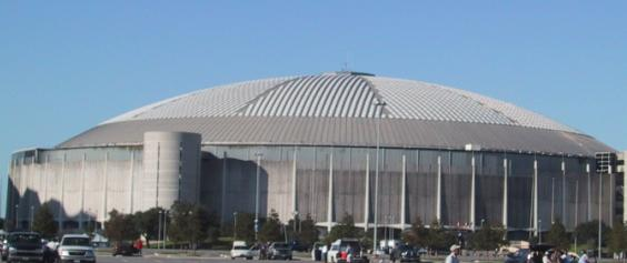 This is a picture of the Reliant Astrodome. I took the photograph. I have released it into the public domain. WhisperToMe 22:57, 30 March 2006 (UTC)